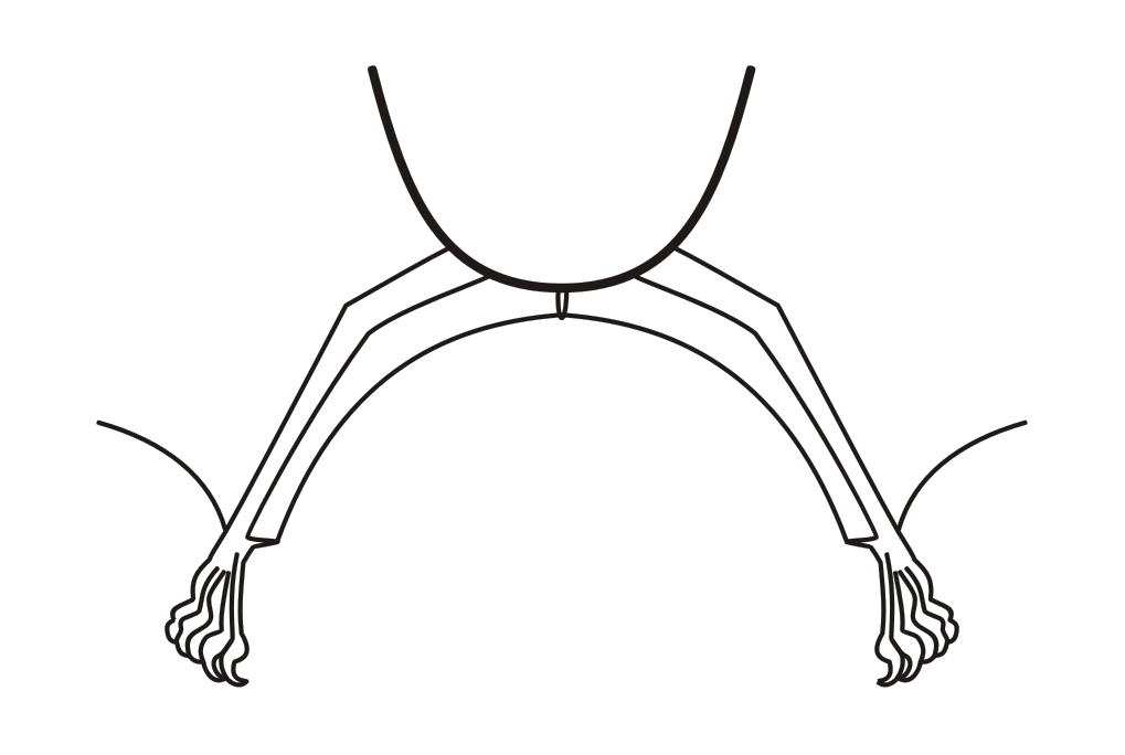 According to Husson, 1962 shows interfemoral membranes, calcar, feet and tail in bats of genus Lonchoglossa